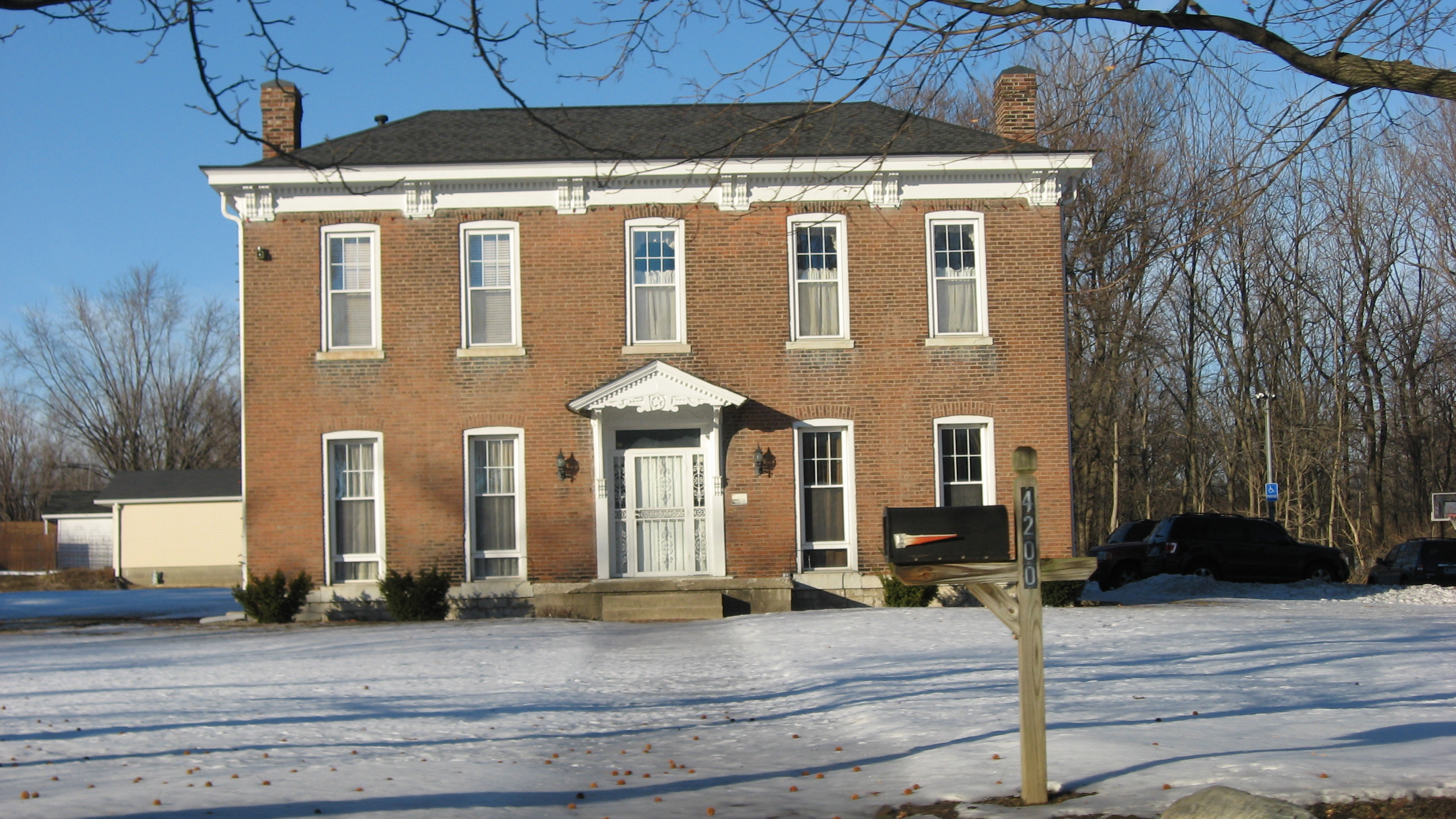 Front of the Thomas Moore House, located at 4200 Brookville Road in Indianapolis, Indiana, United States. Built in 1860, it is listed on the National Register of Historic Places.